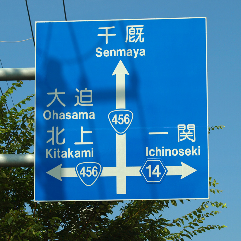 Sign on Prefectural Road 8 for the intersection of National Route 456 with Prefectural Roads 8 and 11. In summer the sign is usually hidden by tree branches.